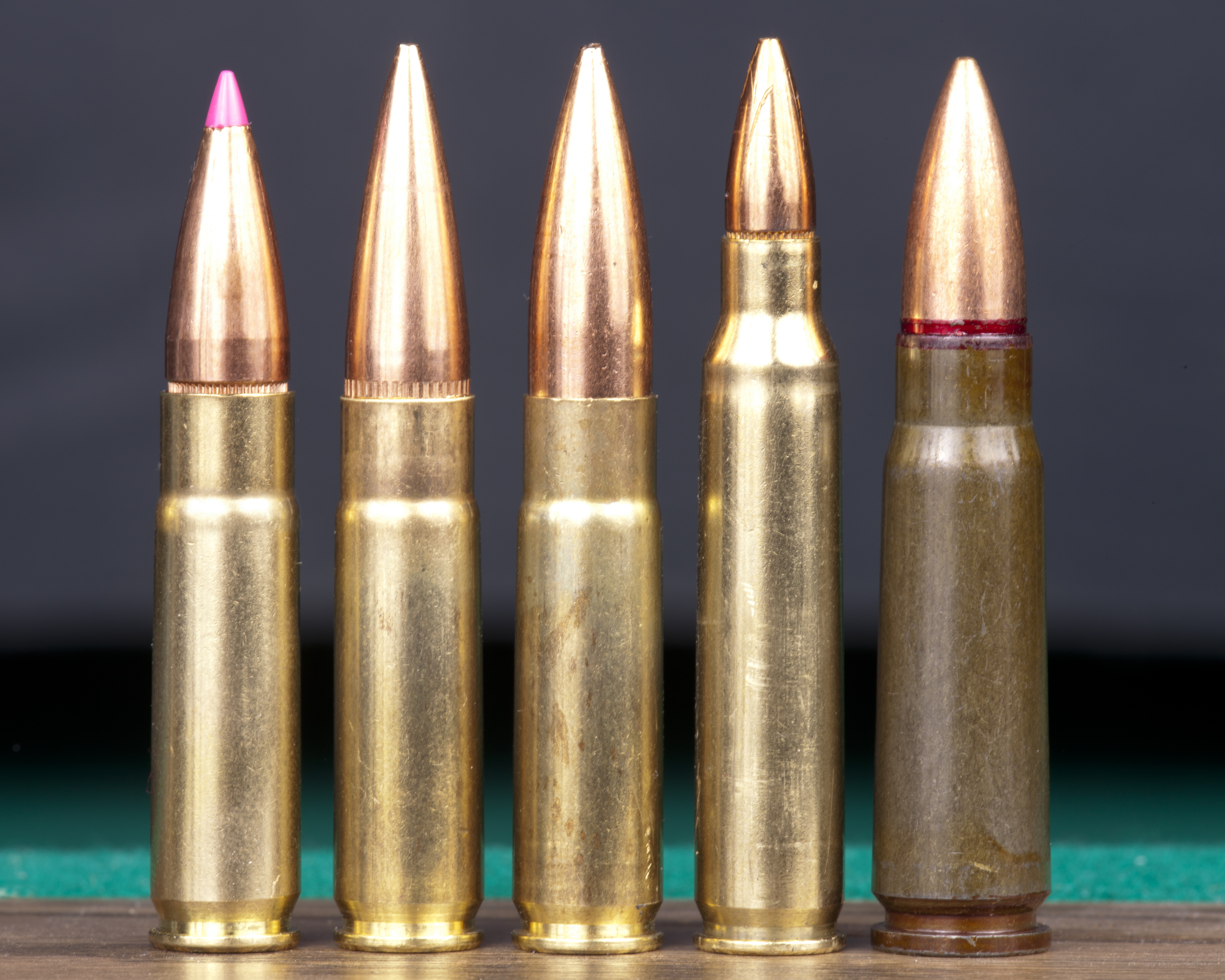 300 AAC BLACKOUT 125 grain plastic tip, 300 AAC BLACKOUT 125 grain match, 300 AAC BLACKOUT 220 grain subsonic, 5.56mm NATO, 7.62x39mm